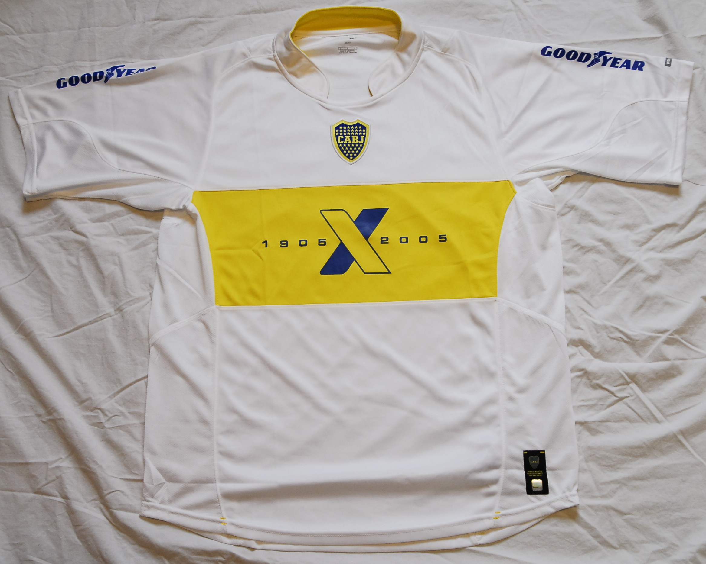 Boca Juniors 2005 Away Jersey